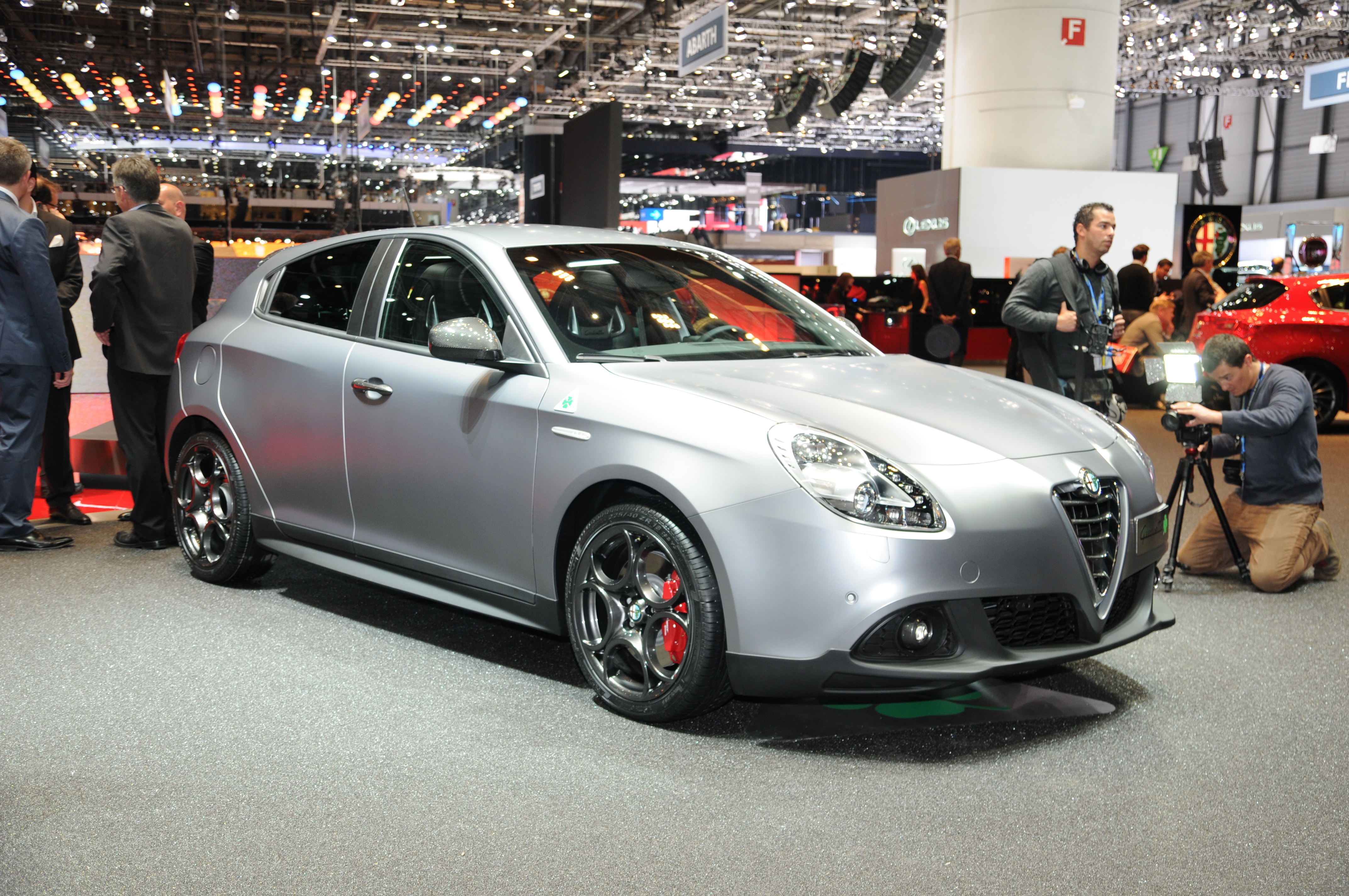 Geneva Motor Show 2014 (photo taken on the first press day)